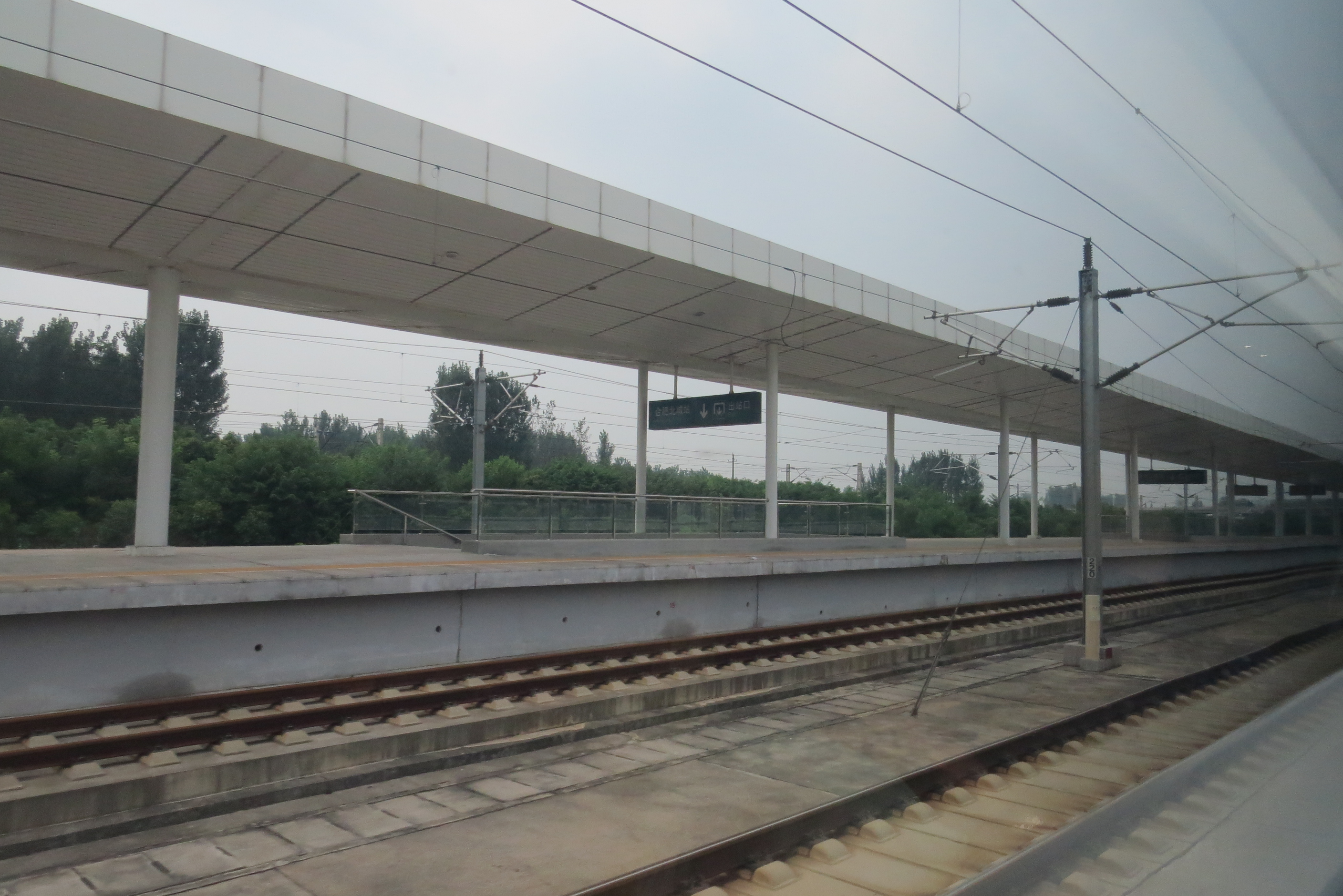 Northern Hefei?